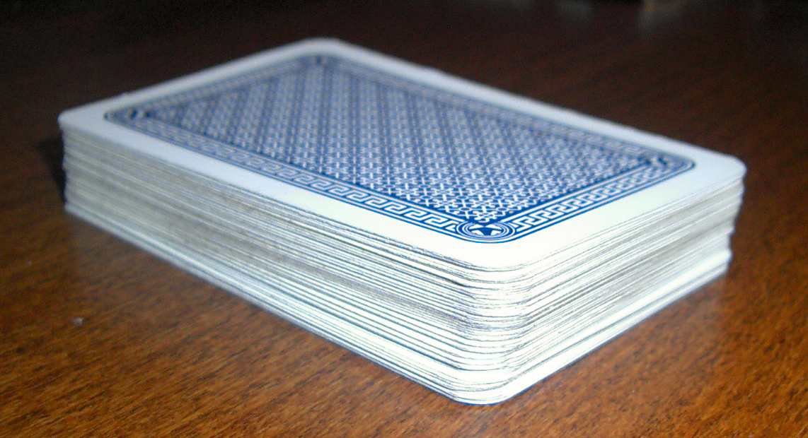 Pack of playing cards.